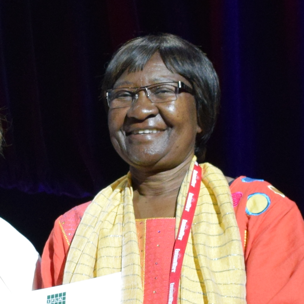 IFLA Medal Jacinta Were WLIC 2016 Closing Session